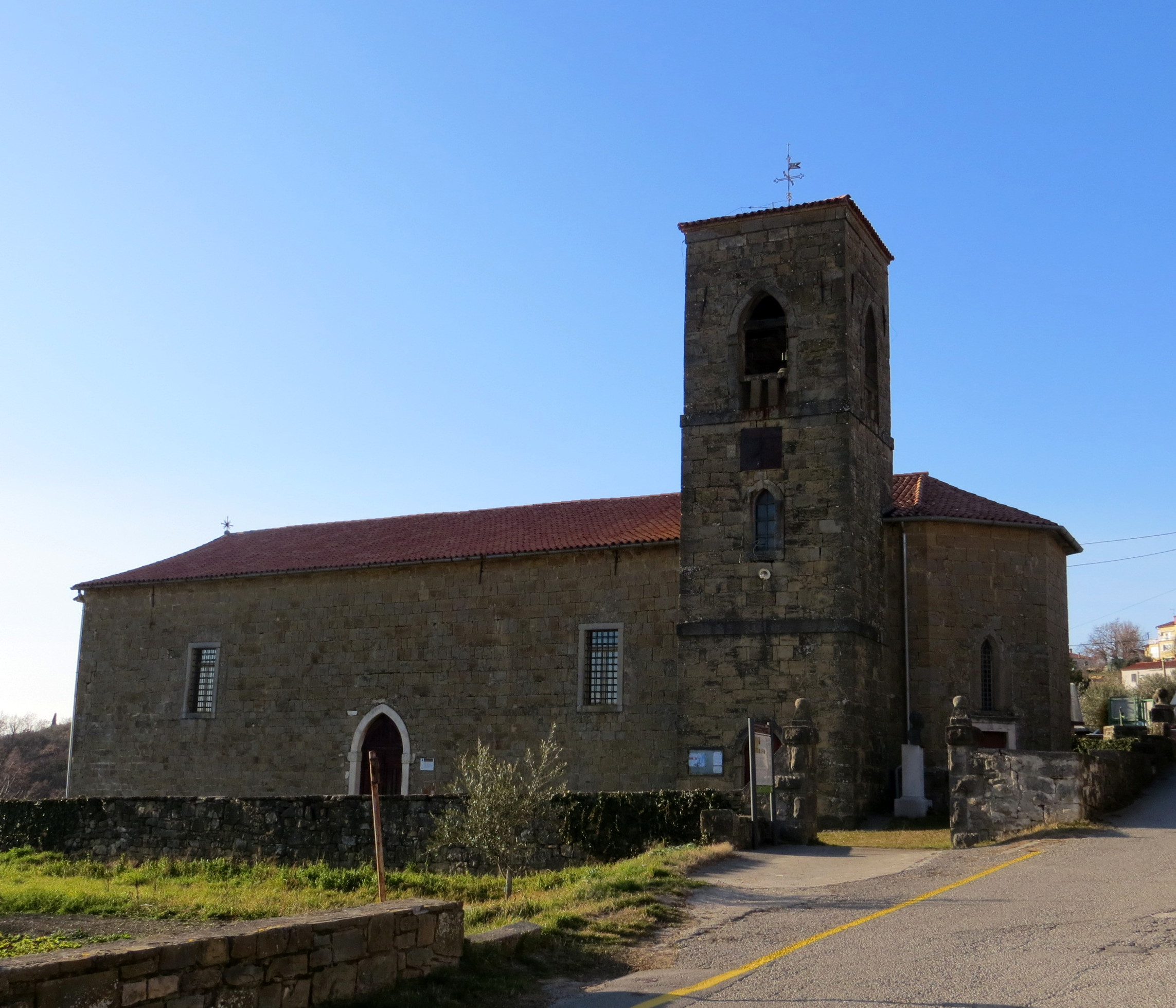 Saints Cosmas and Damian Church in Koštabona, Municipality of Koper, Slovenia